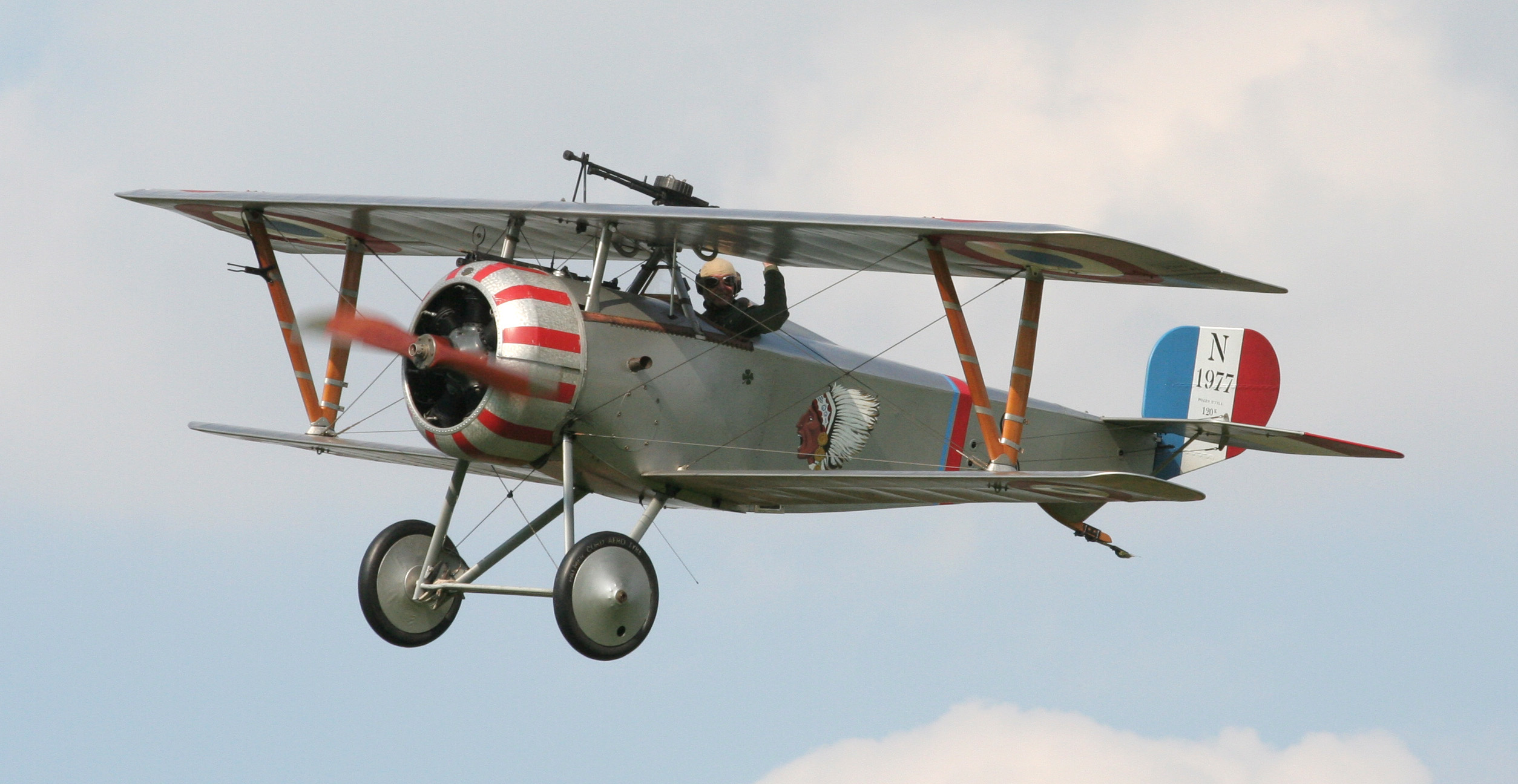 Photo of a Nieuport 17, a French WWI biplane. Taken at the English Heritage 'Festival of History '07'.